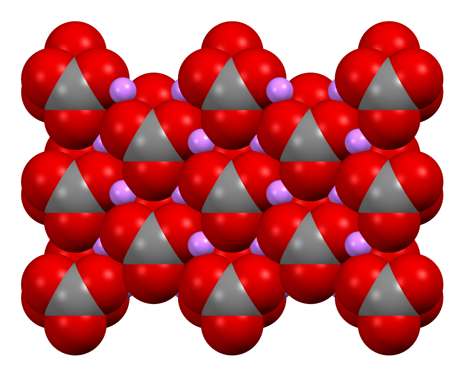 Space-filling model of part of the crystal structure of lithium carbonate, Li2CO3. Colour code: Lithium, Li: lilac Carbon, C: grey Oxygen, O: red Structure determined by X-ray crystallography, reported in Z. Kristallogr. (1979) 150, 133–138. Model manipulated and image generated in CCDC Mercury 3.0.